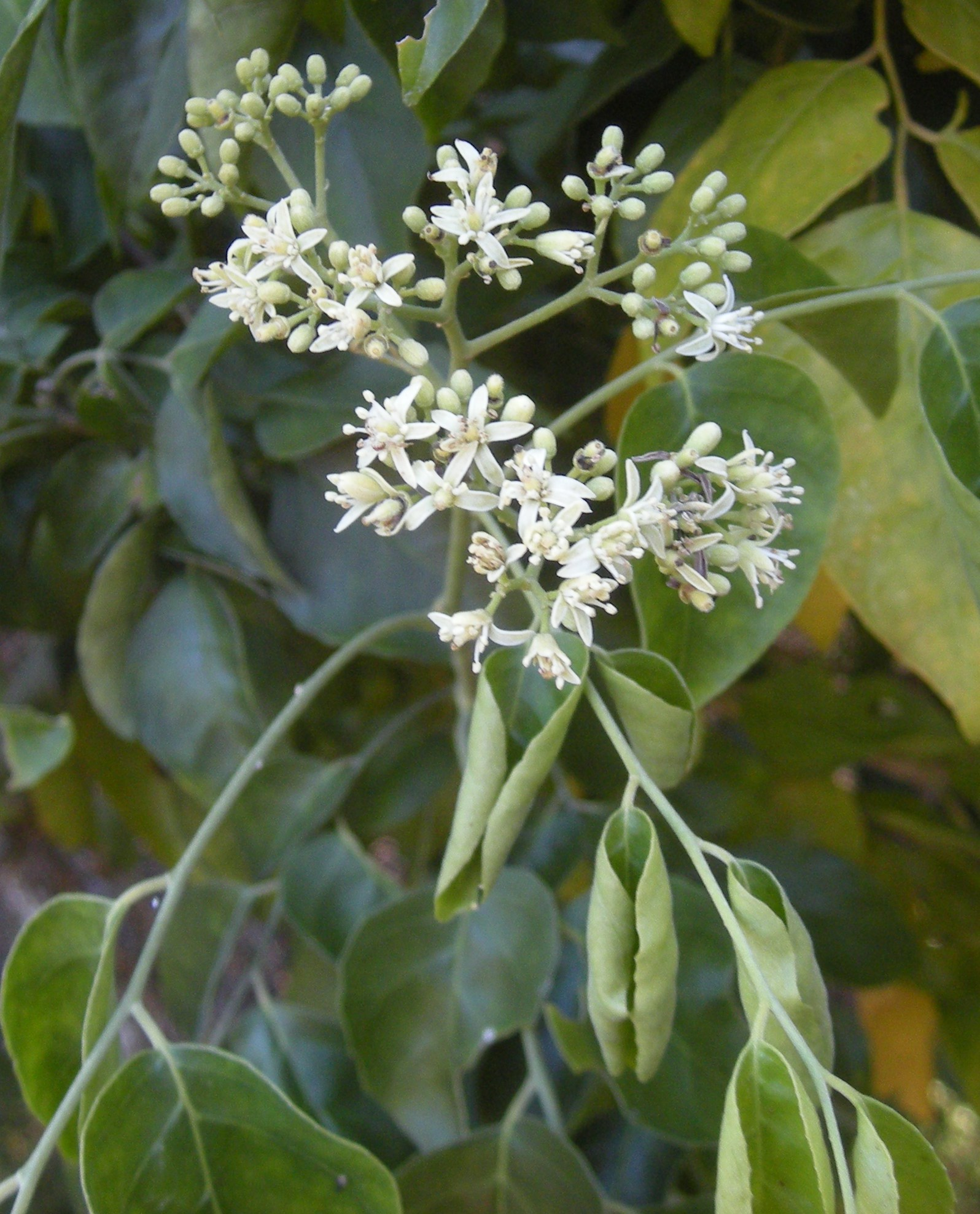 Micromelum minutum flowers